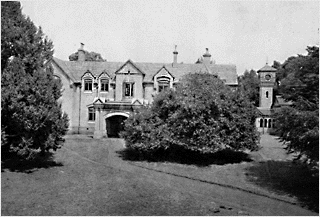 Portion of Front of Stonehouse, 1905. What remains of the old house is in this part of the building. The tree covering the right front is Sullivan's Oak.